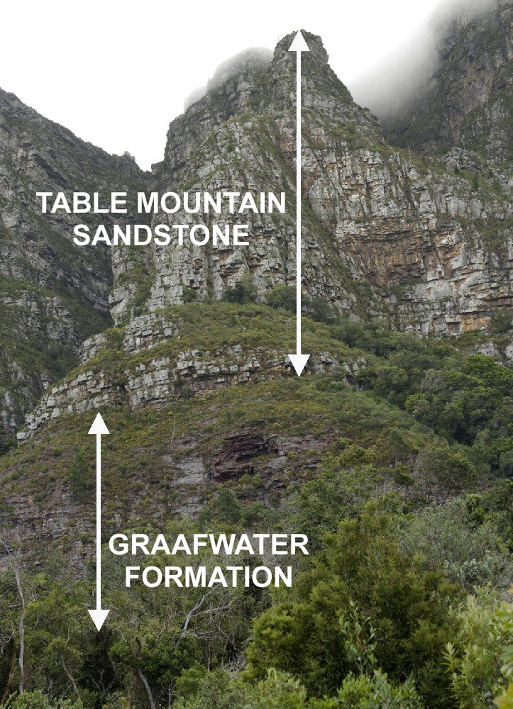 A view of eastern cliffs of Table Mountain as seen from Newlands Forest, above the University of Cape Town. The lowermost layer of rock (which rests on the basement granite, obscured by the forest) is the Graafwater Formation. Above it the Table Mountain Sandstone, or Peninsula Formation, forms the towering cliffs which characterize the Cape Peninsula Mountain chain.